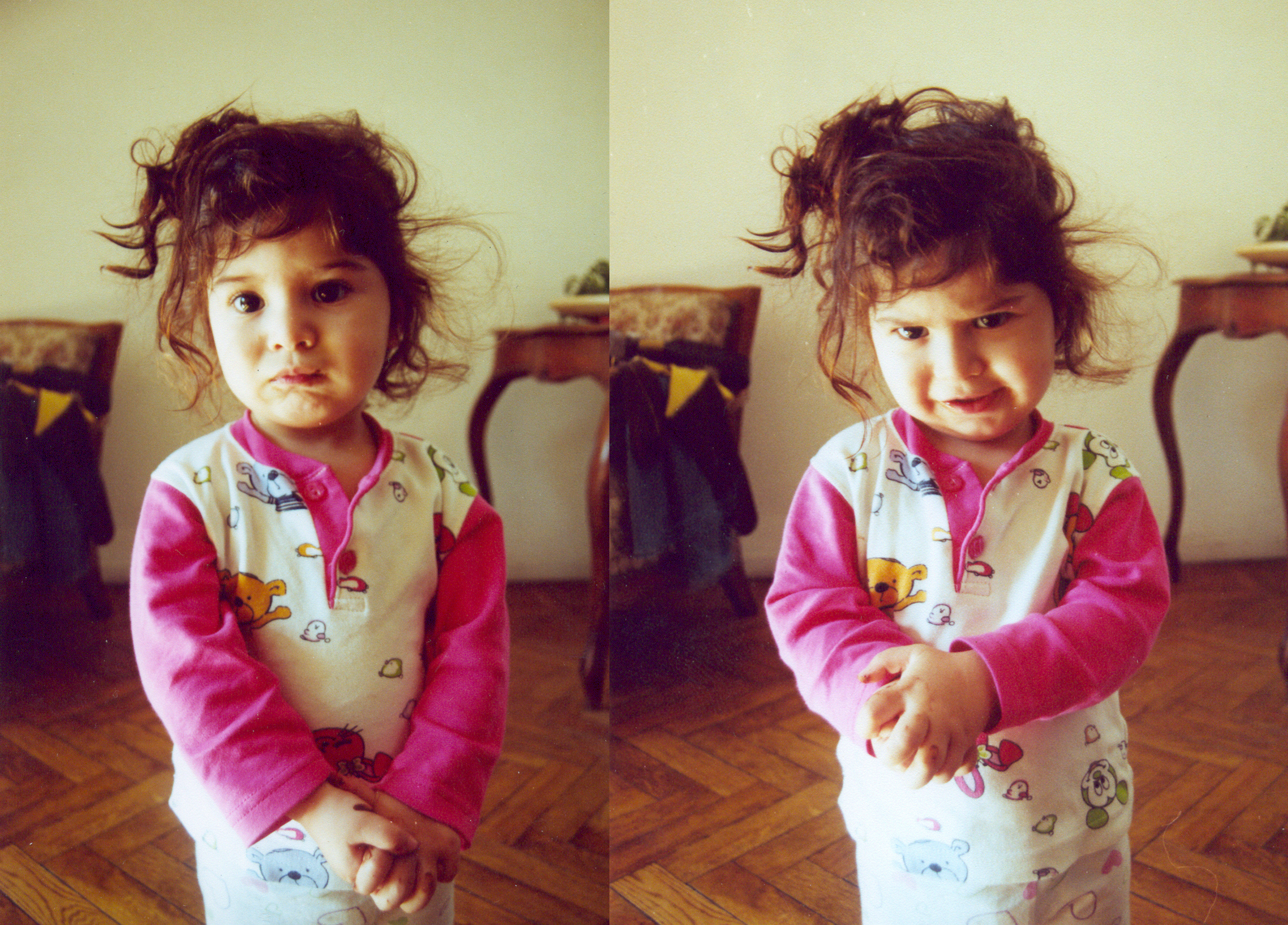 Edvard Chubaryan 75th Birthday, 05 May 2011 05, No. 54